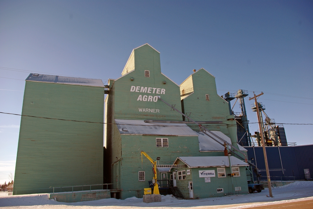 Alberta Pacific Grain Co. & Federal grain Co. elevator (TWIN) - Warner elevator row.